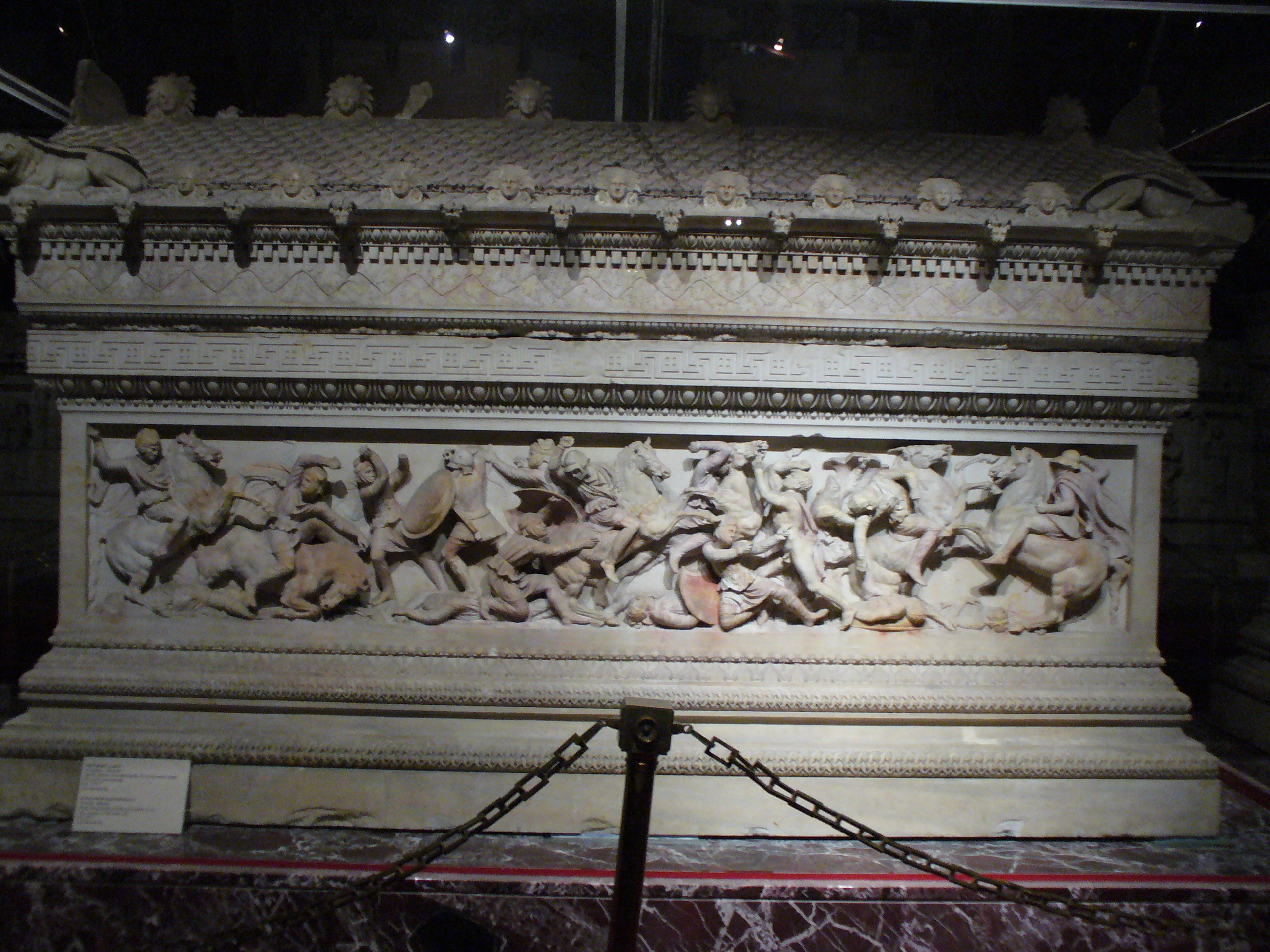 A panel of the Alexander Sarcophagus from Sidon, now at the İstanbul Archaeological Museum. QuartierLatin1968 21:02, 5 December 2006 (UTC)